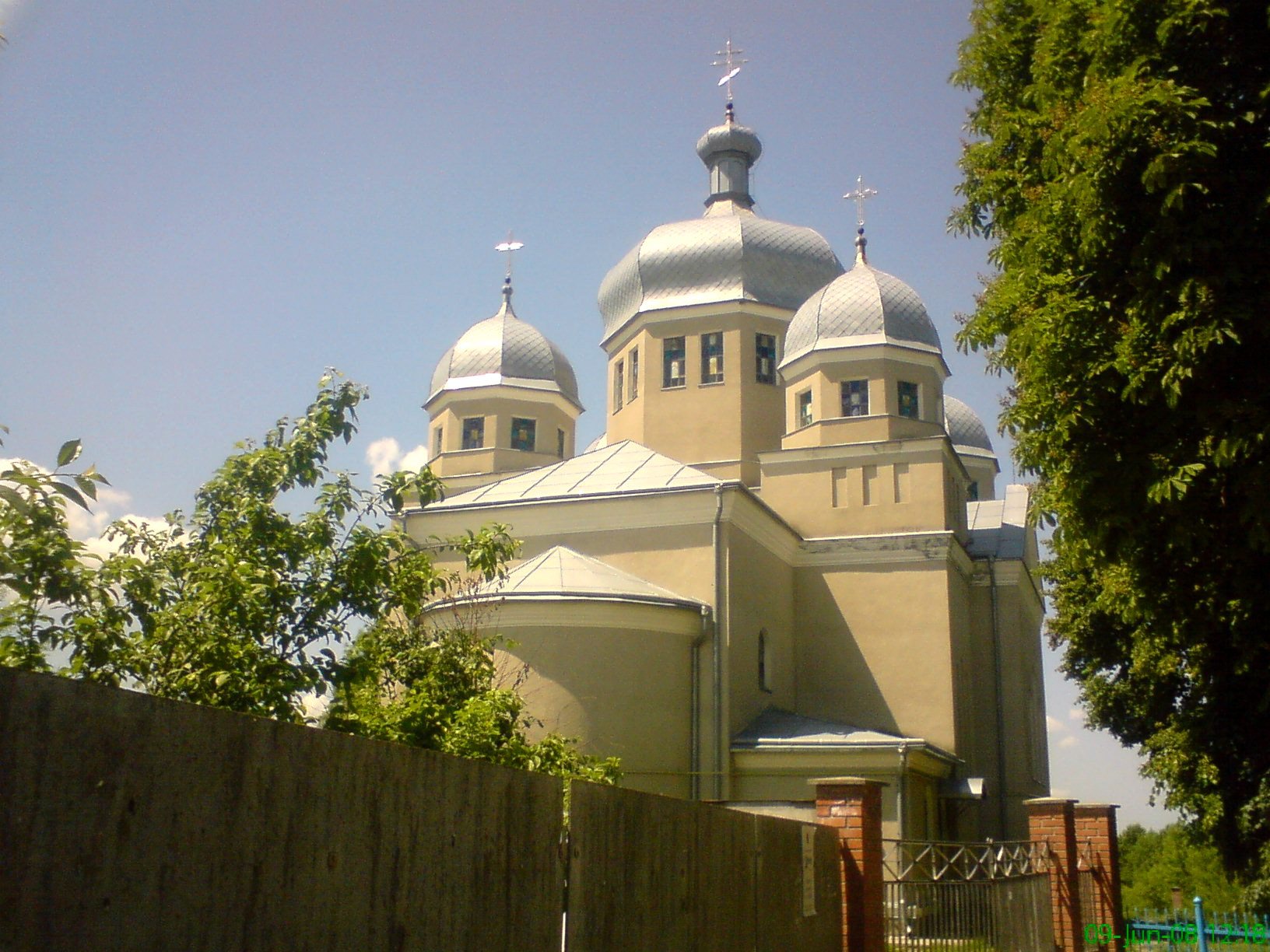 Church